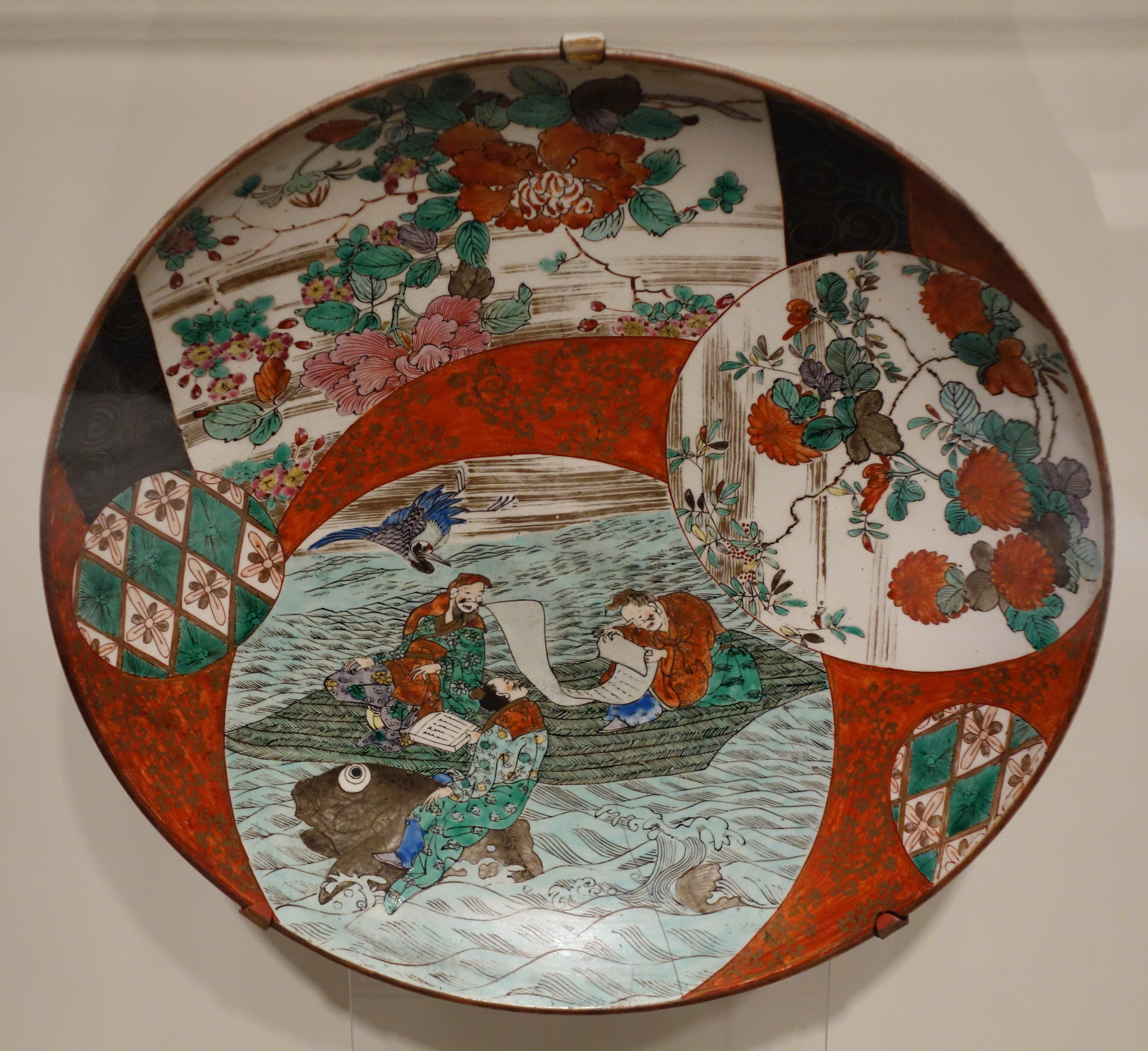 Exhibit in the Cincinnati Art Museum, Cincinnati, Ohio, USA. This artwork is in the public domain because the artist died more than 70 years ago.